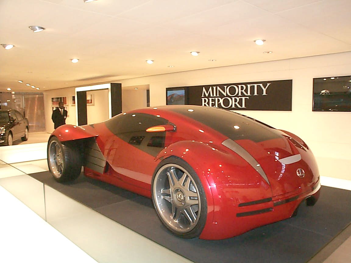 For Minority Report